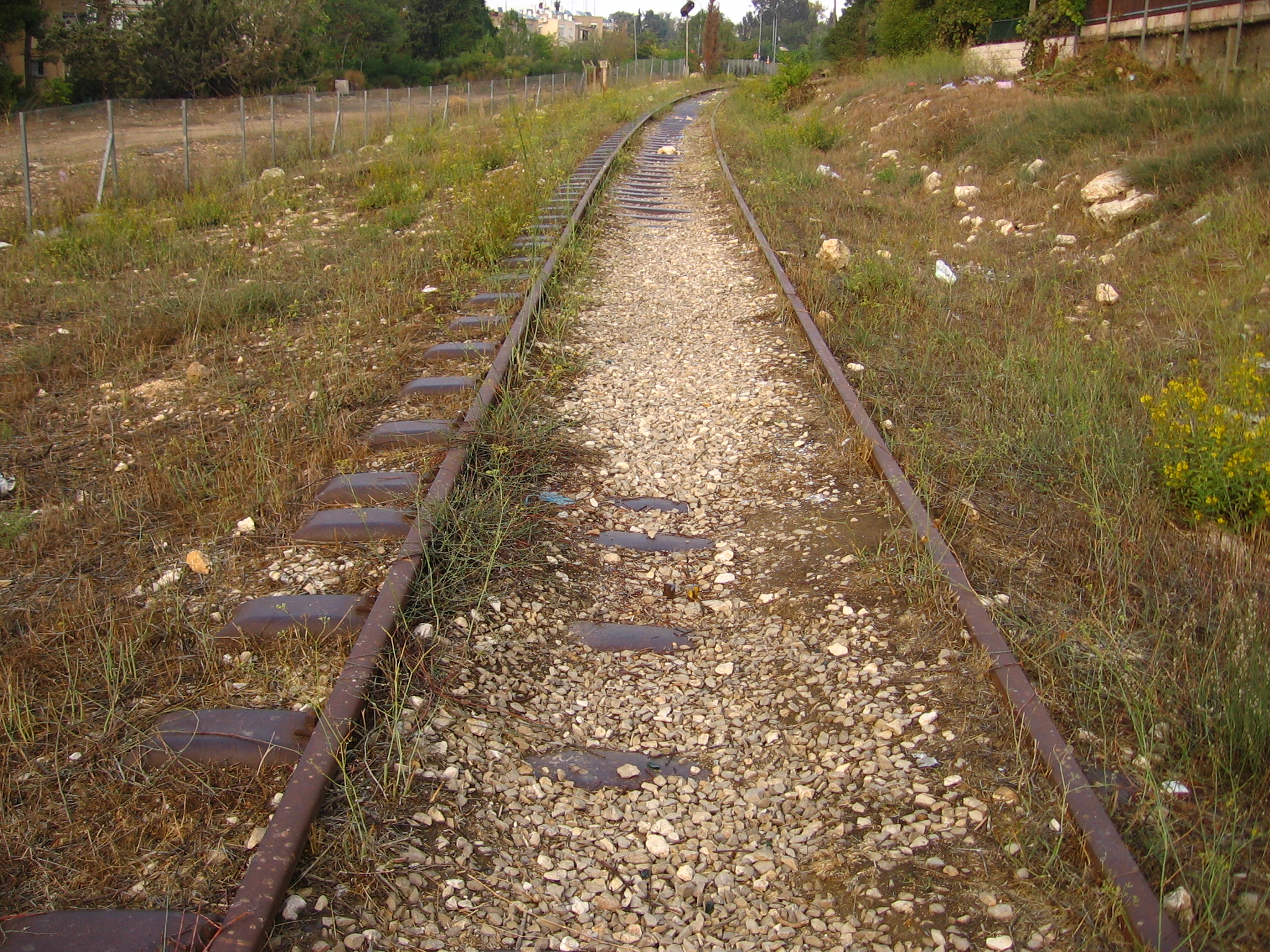 Jerusalem, Makor Hayyim, Tel Aviv-Jerusalem Old Railroad - 04